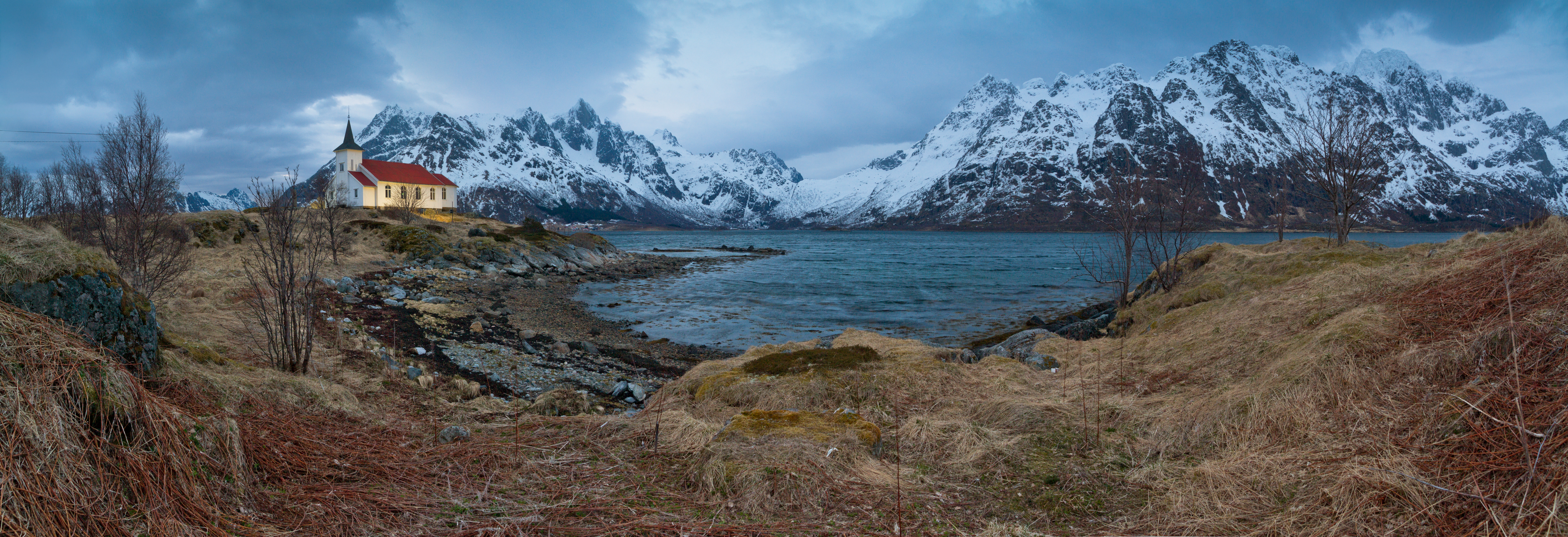 A late evening view to Austnesfjorden at Sildpollnes Church on Sildpollnes peninsula in Austvågøya island, Lofoten, Norway in 2015 April.